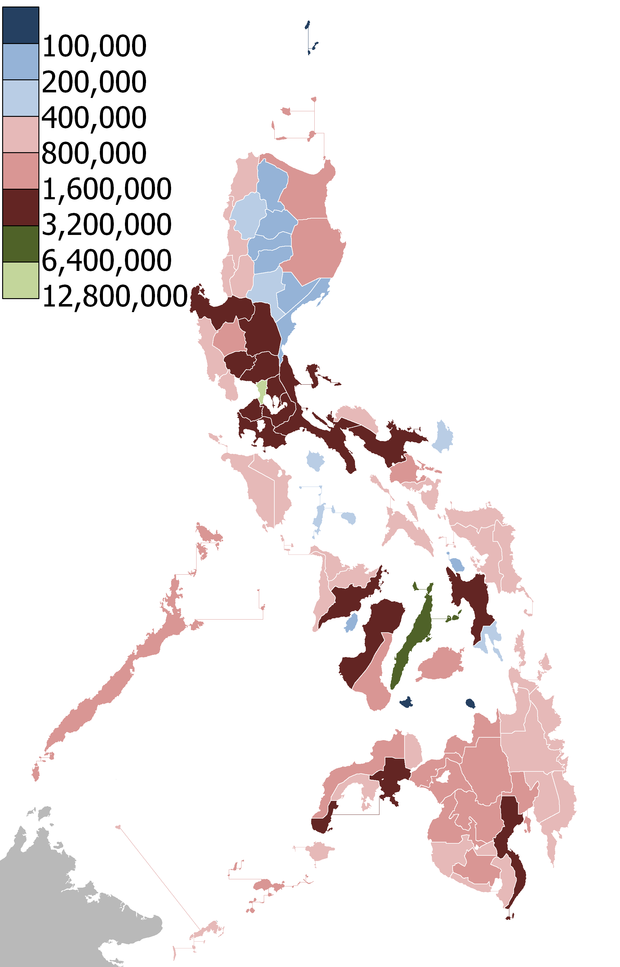 Color coded map of the provinces of the Philippines by population.